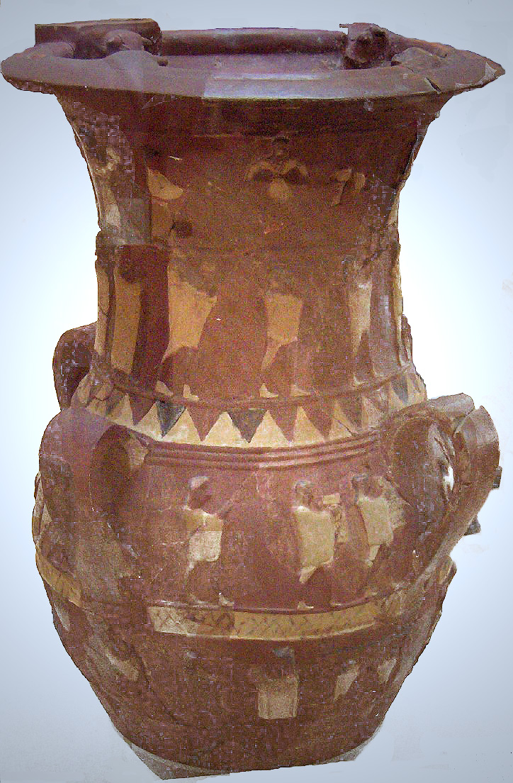 The Inandik vase :four-handled large jar with relief decoration: baked earth; height : 82 cm; period of the Old Hittite Kingdom; about 1600 BC; Museum of Anatolian Civilizations, Ankara, Turkey